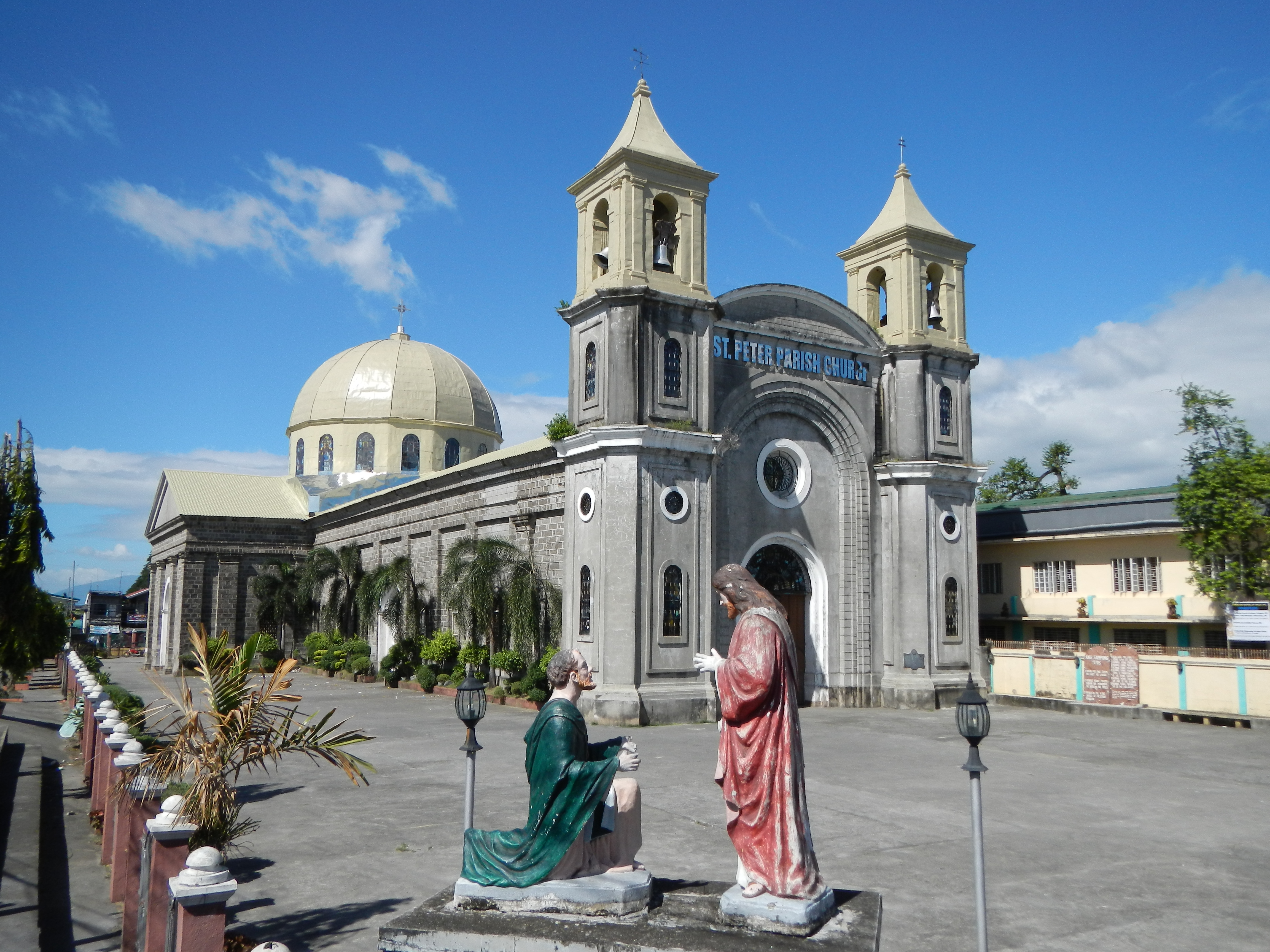 Apalit, Pampanga[1] 1590 San Pedro Apostol Parish - Apalit Roman Catholic Archdiocese of San Fernando